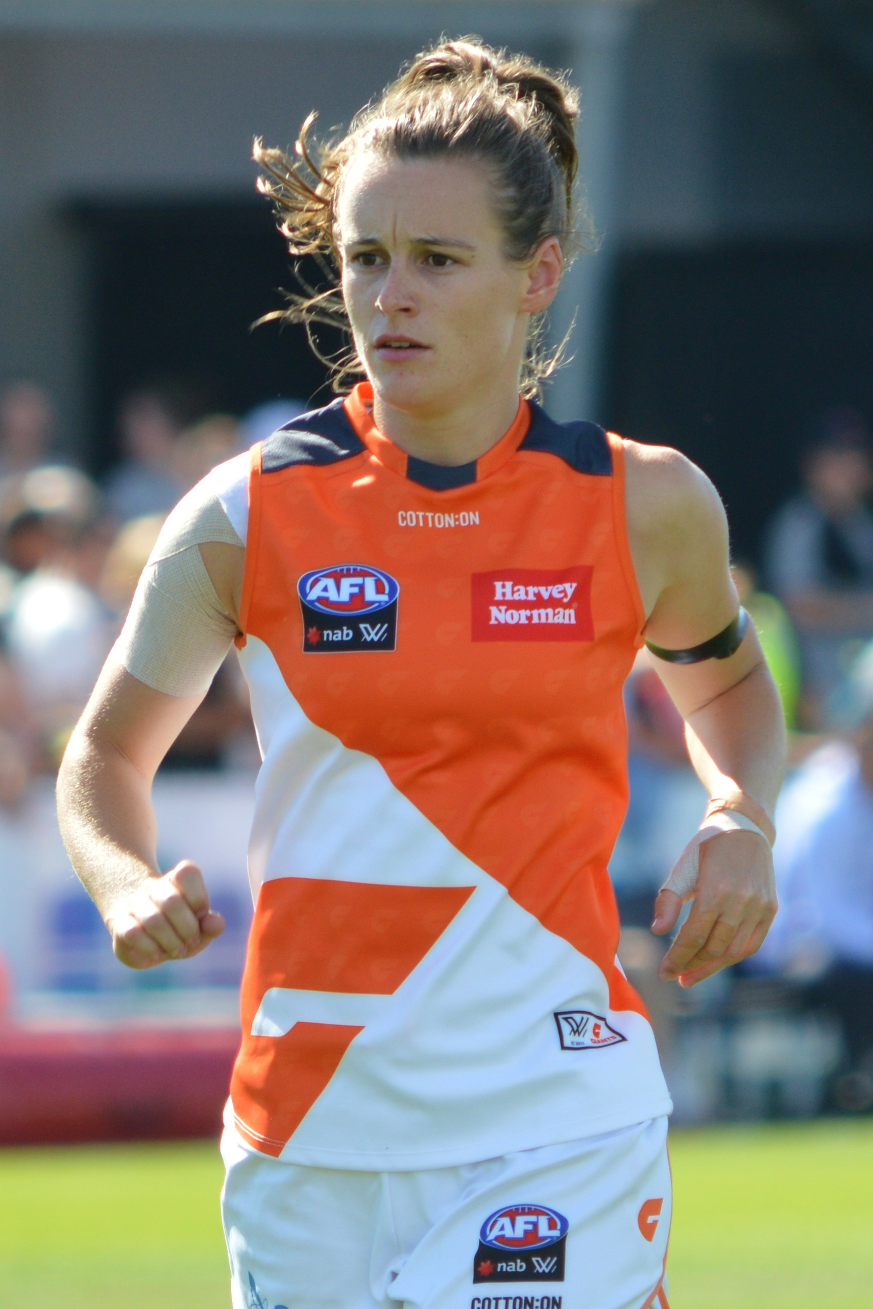 Alicia Eva during the round 1, 2018 AFL Women's match between Melbourne and Greater Western Sydney.